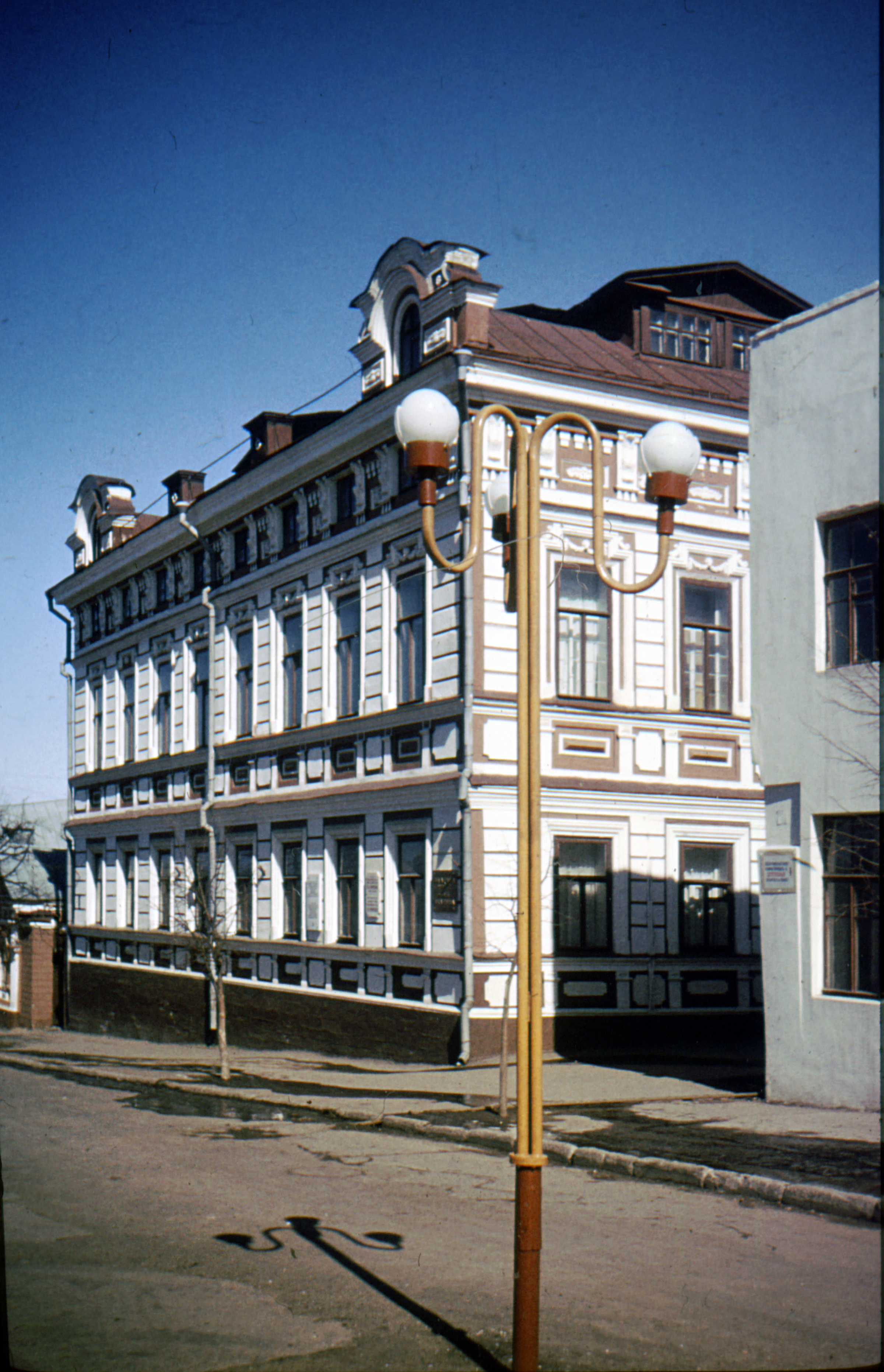 Efremov House in Cheboksary, Russia